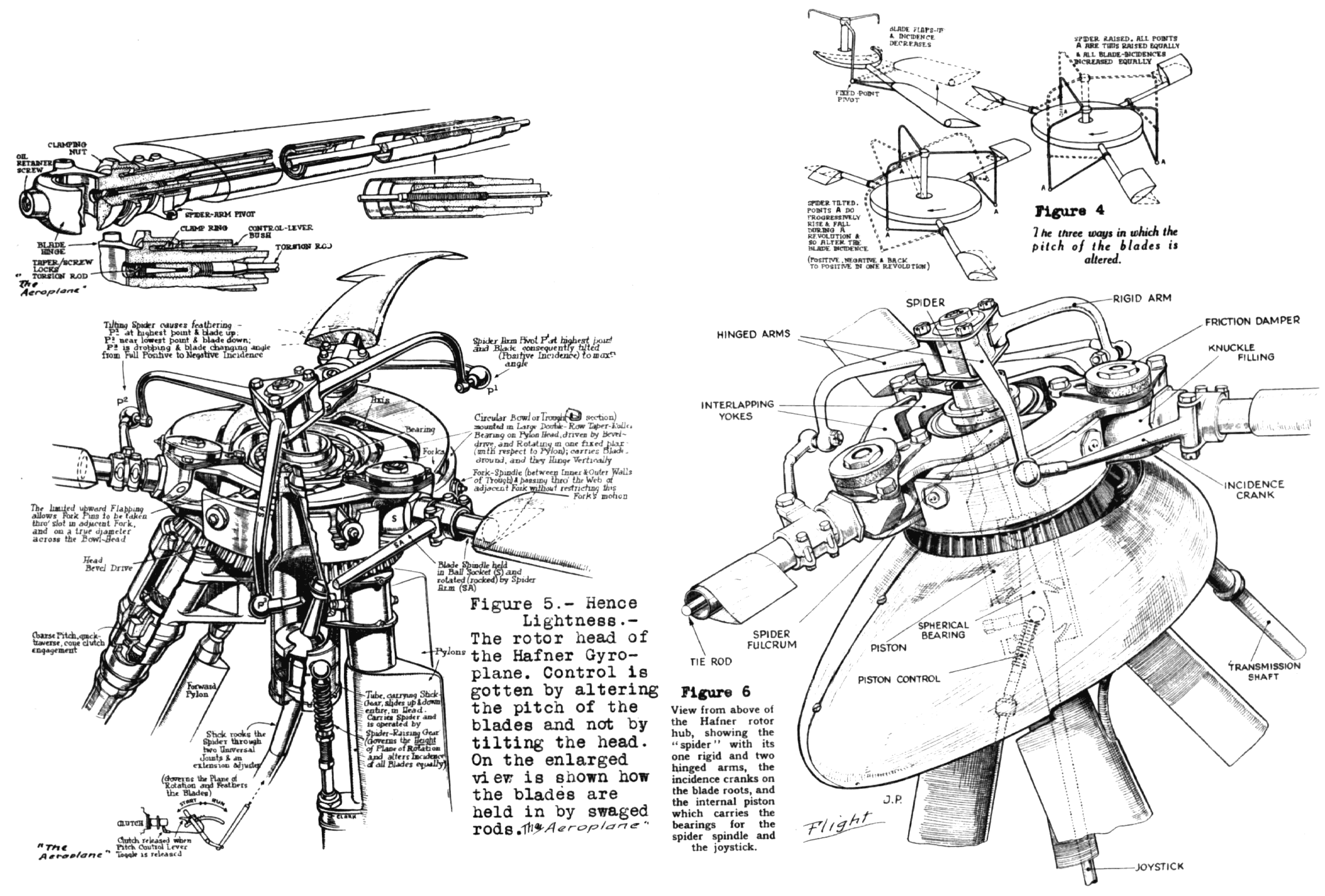 Hafner AR.III detail drawing from NACA-AC-205